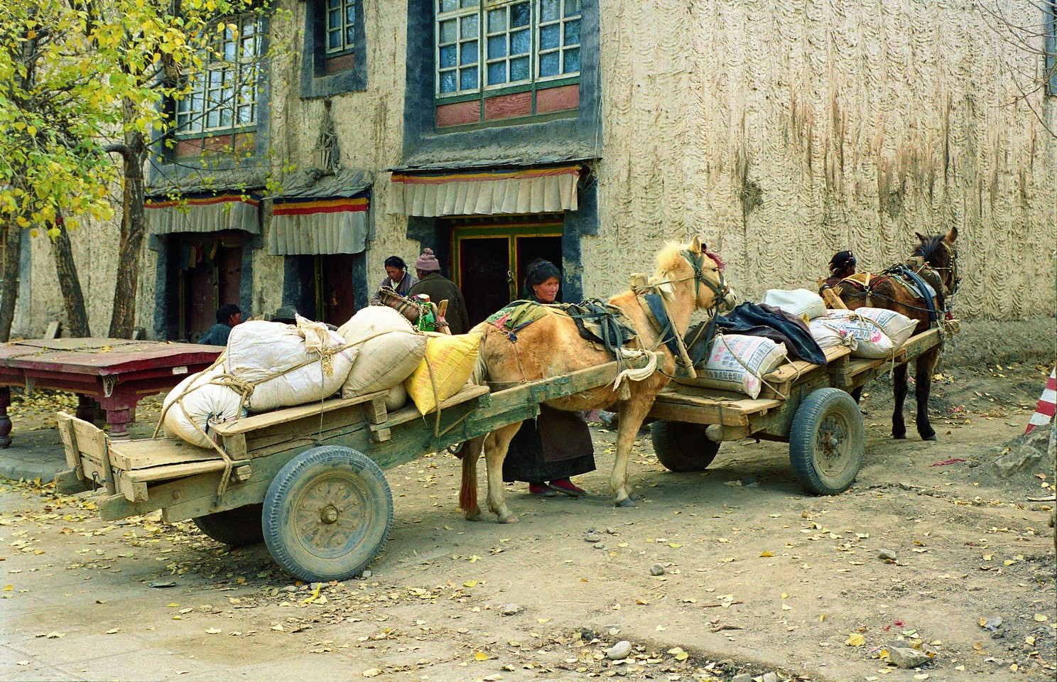 Tibetans traying to get a good price for the barley grain. Tibet's staple food is Tsampa,which is powdered roasted barley. Tibetans harvest this on traditional way by hand also harvesting on fields is by hand labor. This is hard work for man and woman.